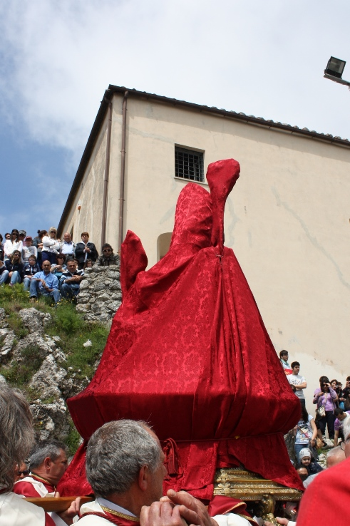 Maratea's Saint Blaise statue covered with the traditional red cloth.